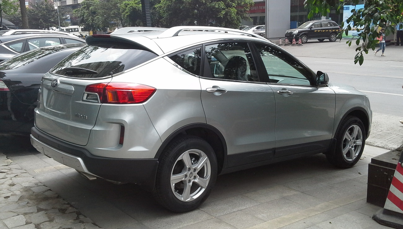 Besturn X80 photographed in Chengdu, Sichuan province, China.